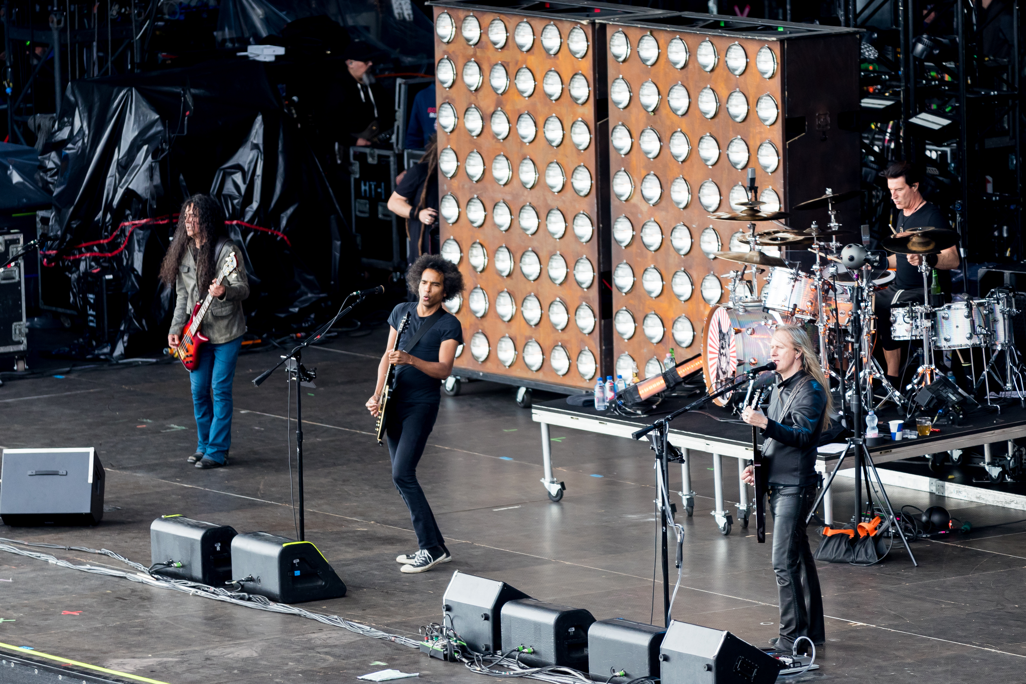 Alice in Chains during Rock am Ring ( at Nürburgring, Rheinland-Pfalz, Germany on 2019-06-07, Photo: Sven Mandel Promotion by Live Nation (